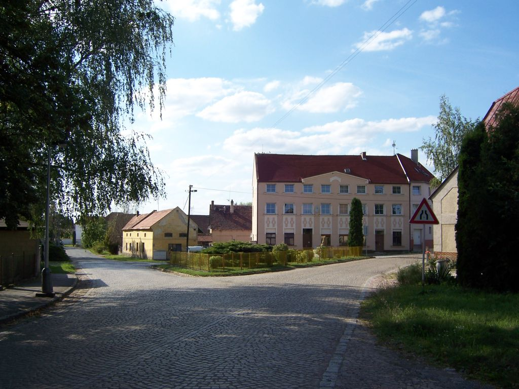 Břežany II